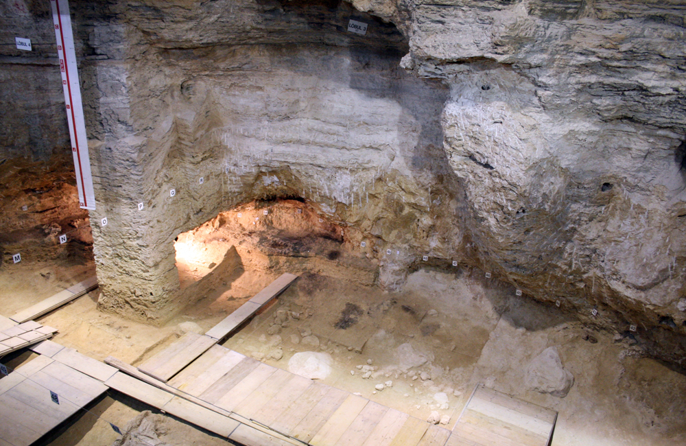 general view of abric Romaní prehistoric site, Capellades, Spain, during the International workshop "The Neanderthal Home: Spatial and Social Behaviours", October 2009